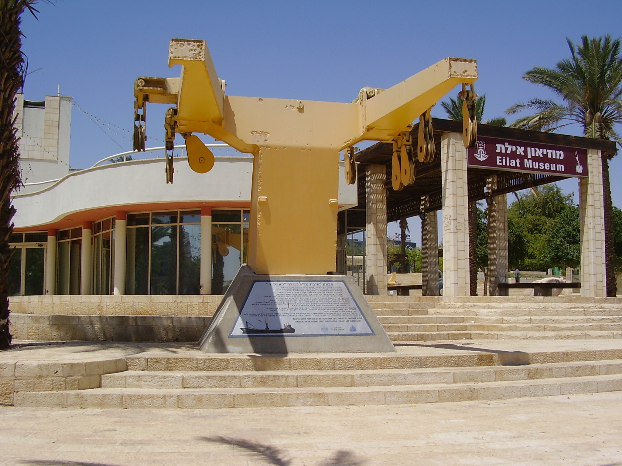 Upper part of the mast of the weapon ship karin A, captured by the israeli navy on January 3, 2002 in operation Noah's Ark.